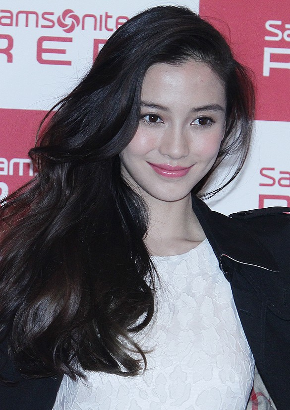 Angelababy in 2014